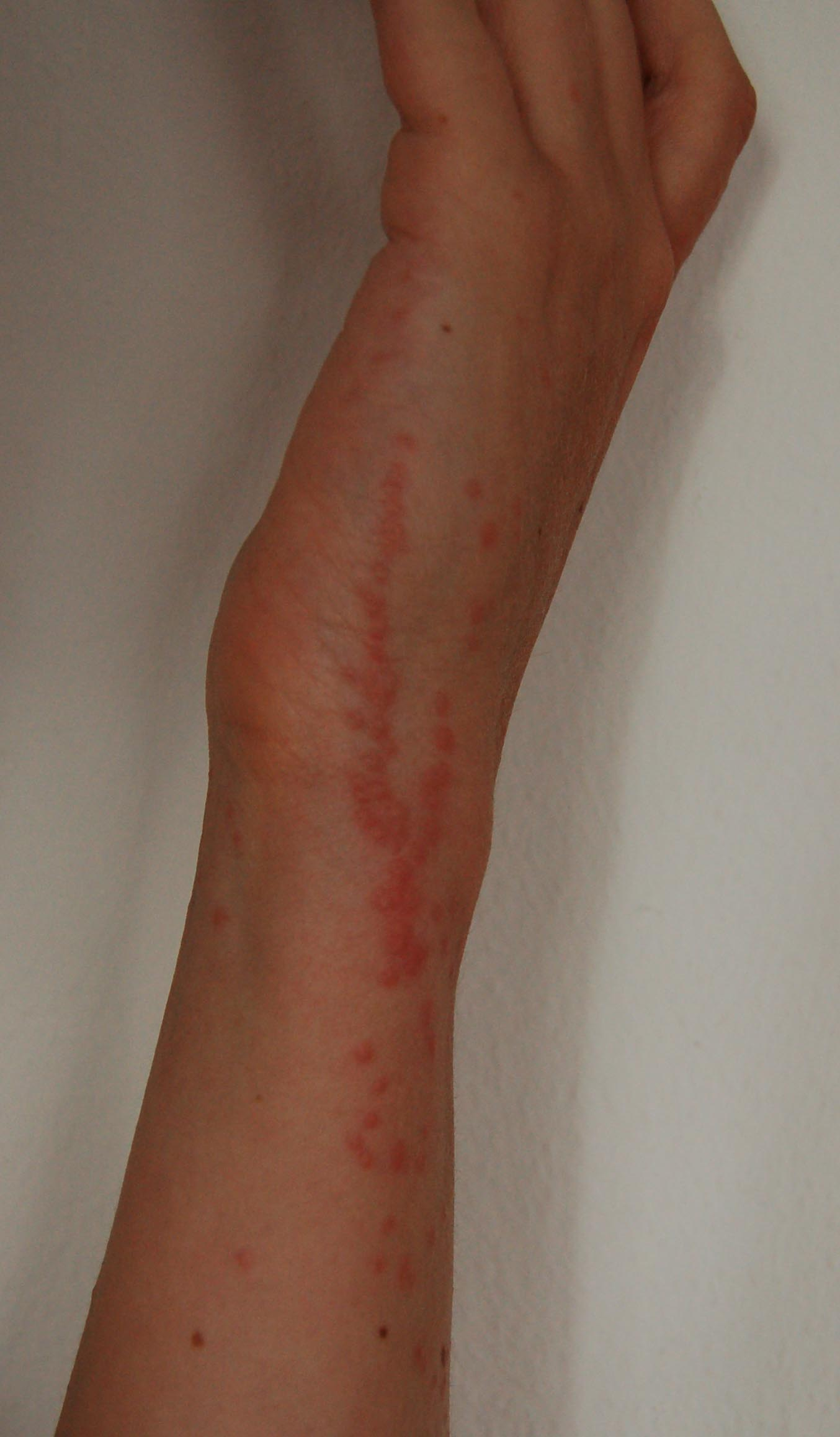 Approx. four day old bed bug bites on the outside of the left arm, around the wrist. Bed Bugs are biting insects that feed on the blood of people while they sleep. Bed Bugs can sting only people who share the same room. They rarely bite pets. If they are not exterminated, bed bugs reproduce and spread quickly. When numerous, bed bugs are becoming a nuisance. It is then an infestation. An bed bug infestation can have very important consequences on the health and quality of life of people.